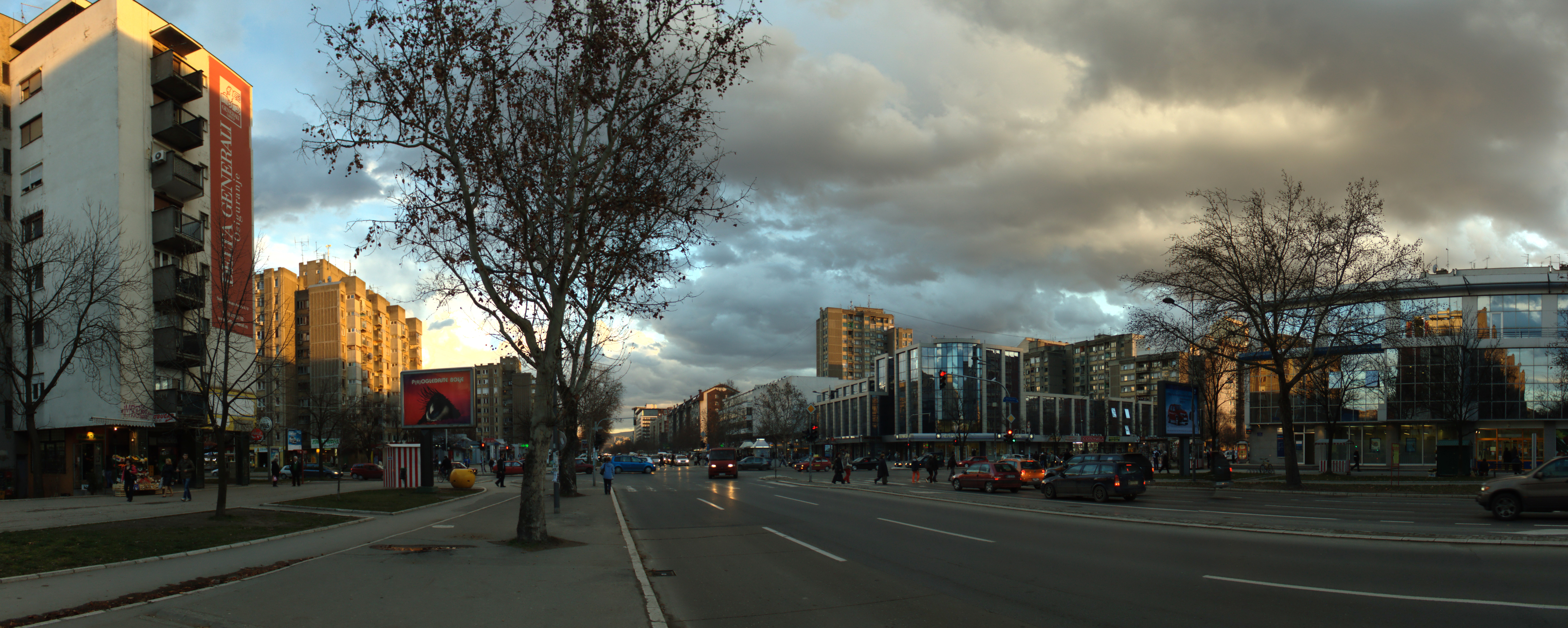 A panorama view of the crossing of Bulevar Oslobođenja and Bulevar Petra I. streets in Novi Sad, Serbia